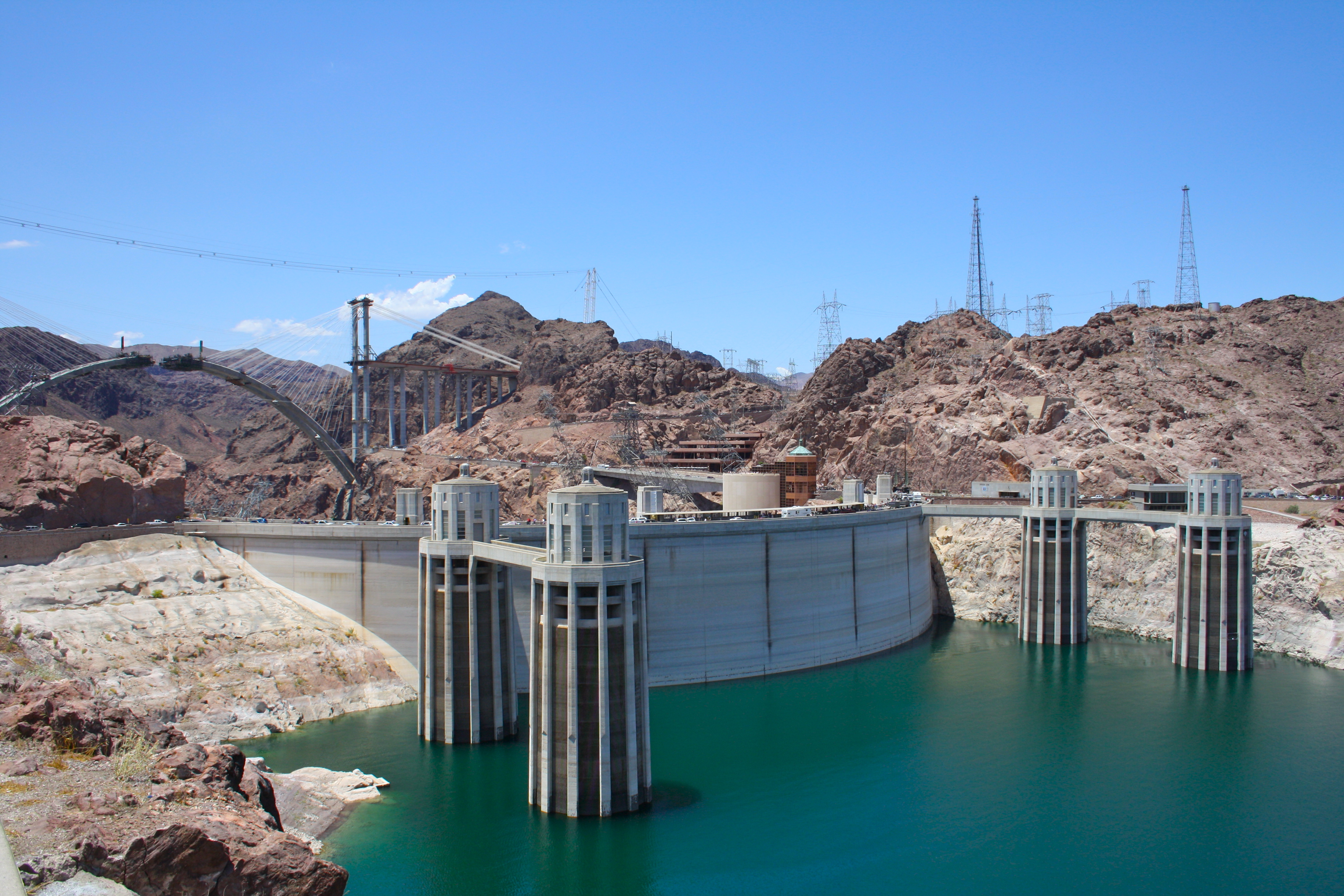 Hoover Dam